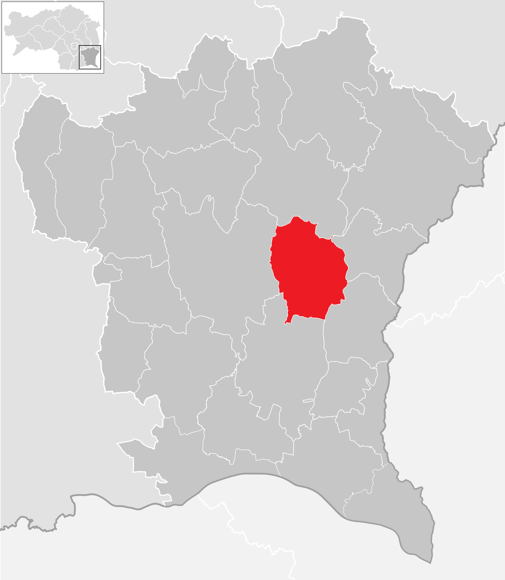 district Südoststeiermark